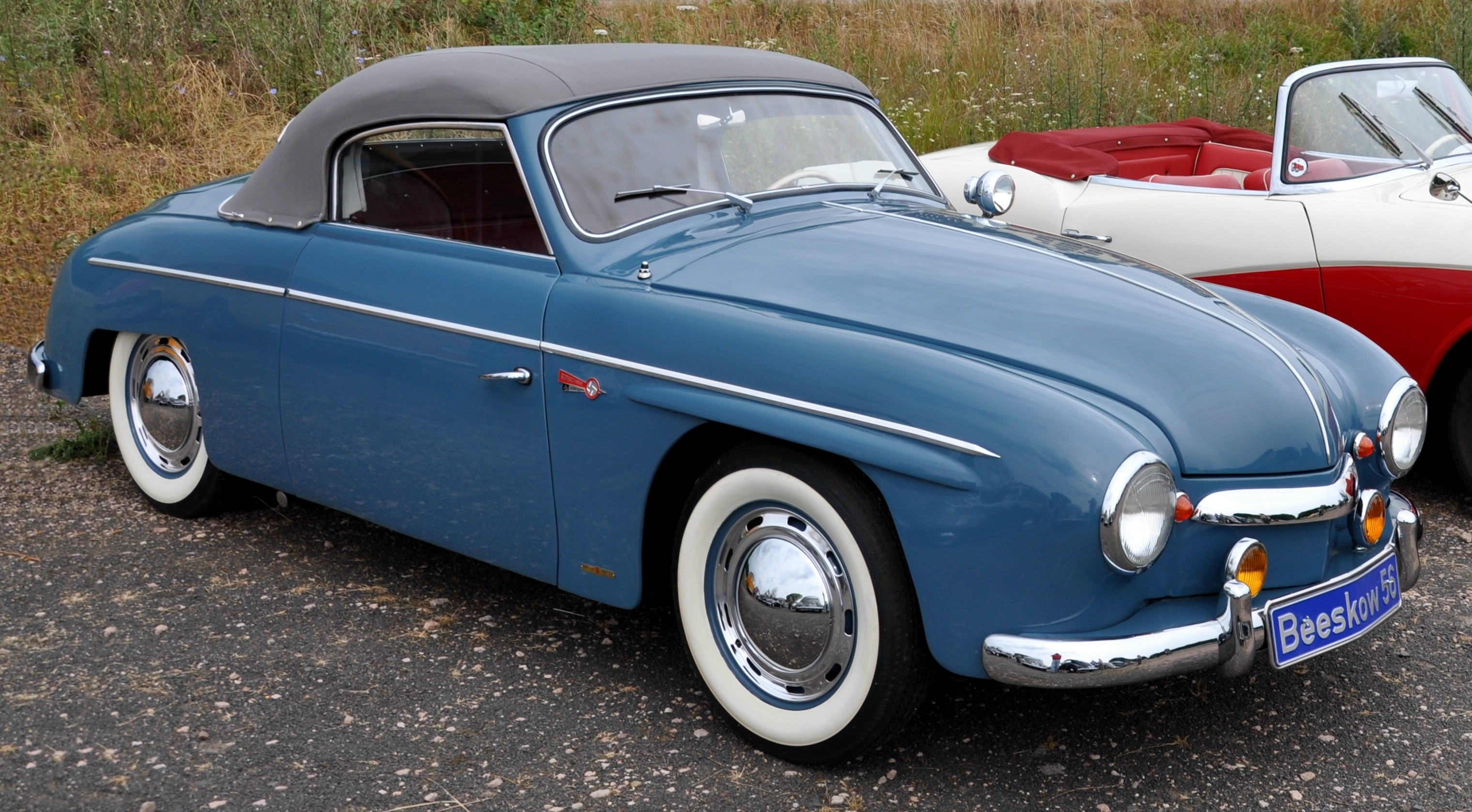 front: Rometsch Cabriolet 1956, Model Beeskow Hollywood Car (backgound: Rometsch Lawrence Cabrio)